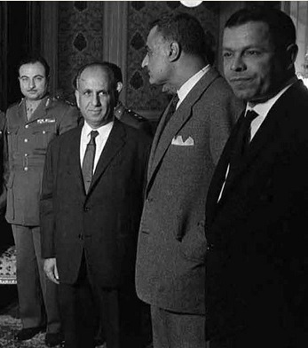 Delegations attending the 1963 unity talks between Egypt, Syria and Iraq in Cairo. From left to right: Ziad al-Hariri of Syria, Nihad al-Qasim of Syria, Gamal Abdel Nasser of Egypt, and Ali Salih al-Saadi of Iraq. Cropped from original photo